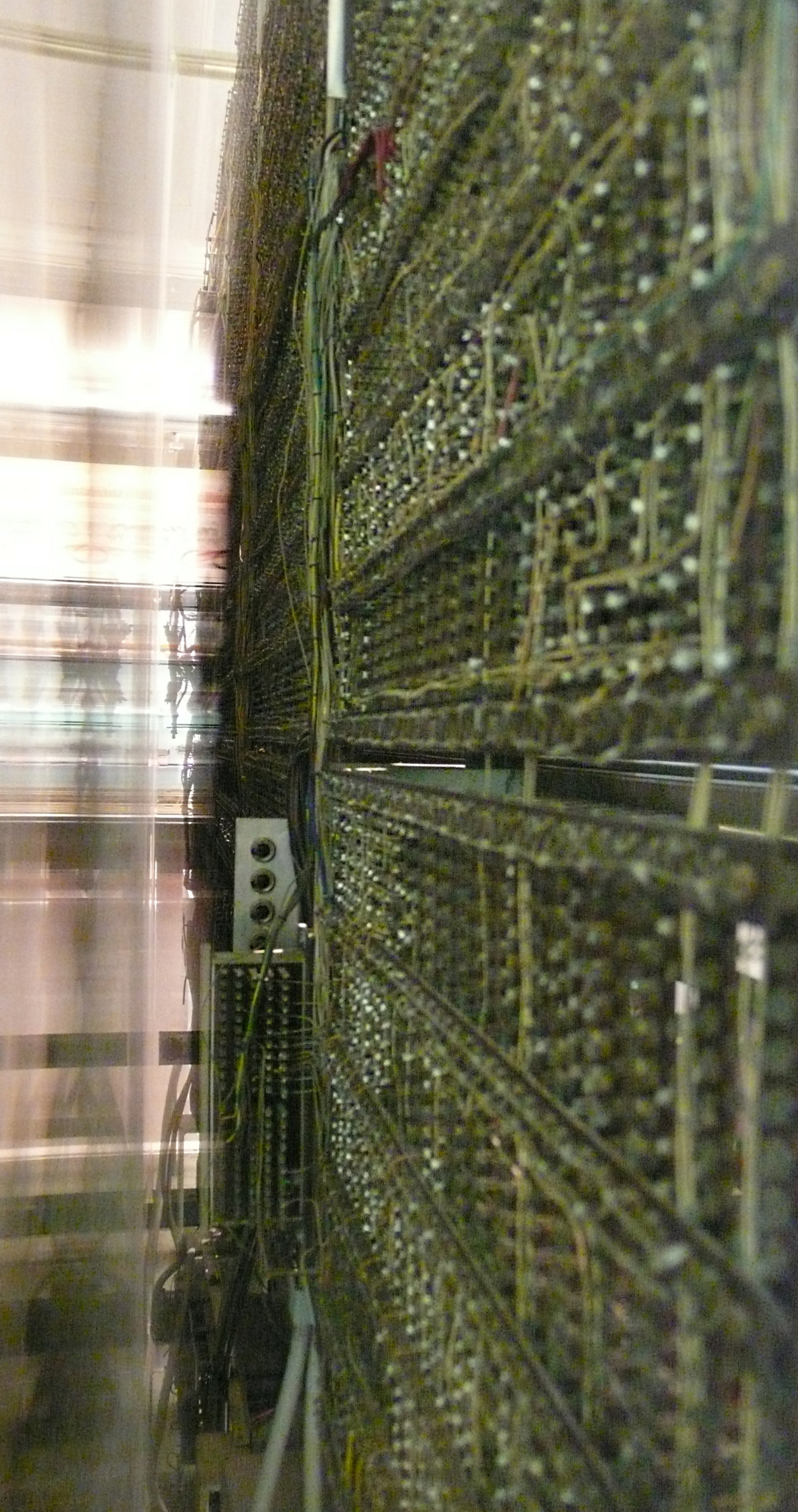 Computer Mailüfterl (1955 TU Wien)